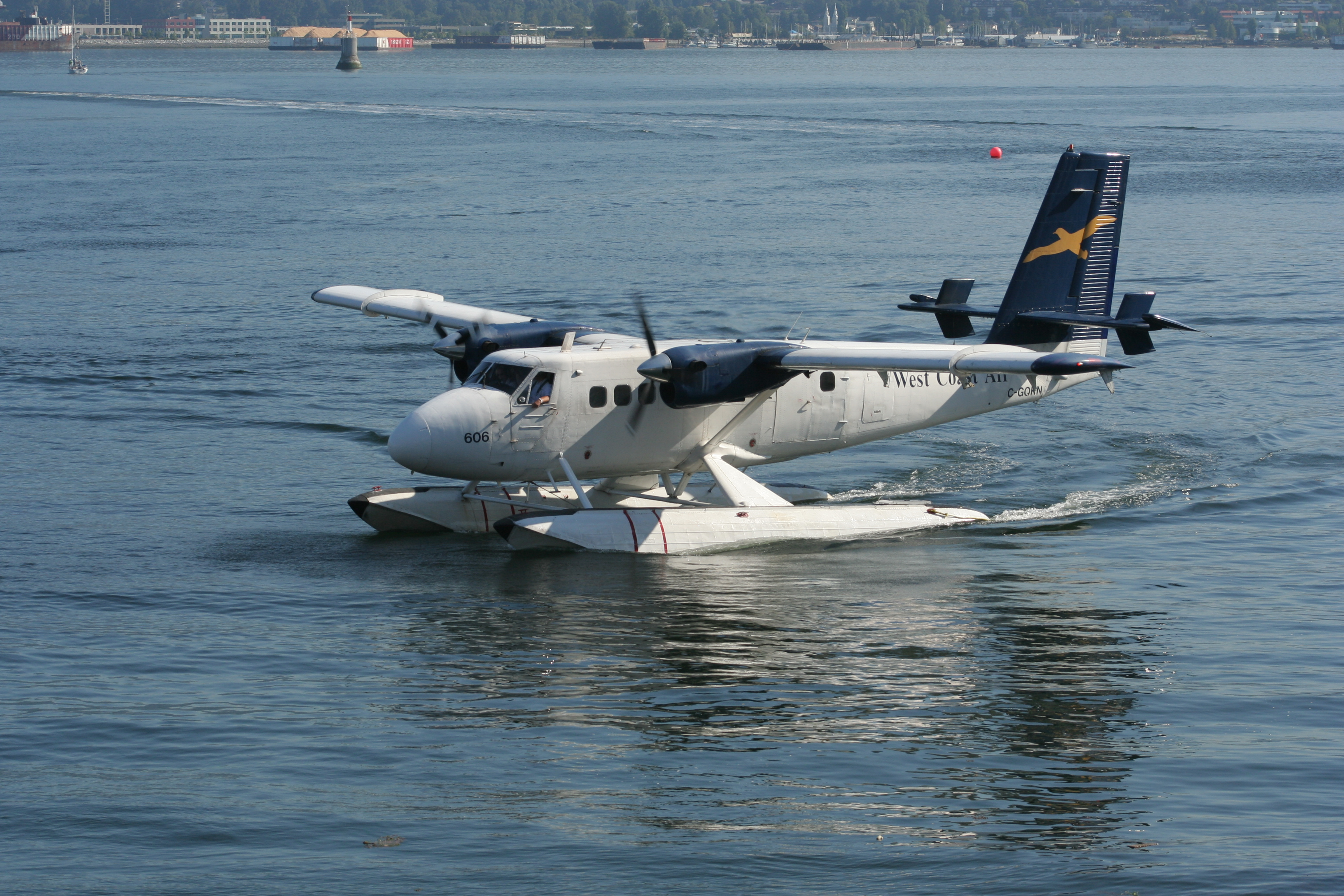 Flight from Vancouver to Victoria. West Coast Air De Havilland DHC-6 Twin Otter floatplane